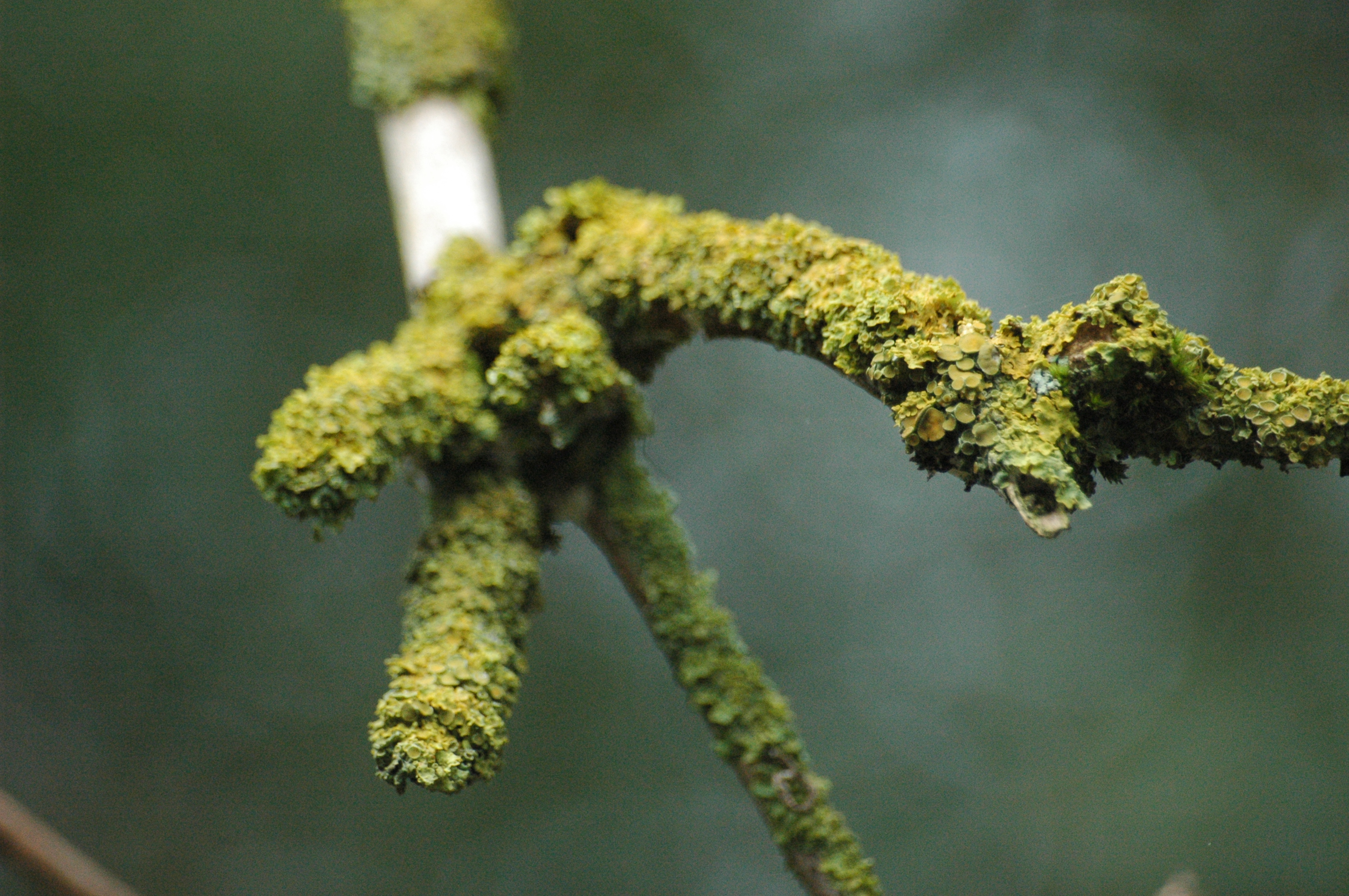 Branch, 55294 Bodenheim, Germany